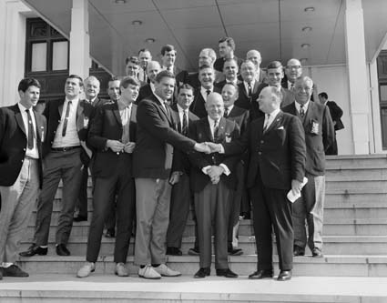 Minister for Immigration Hubert Opperman shakes hands with the captain of the Geelong Football Club, Graham Farmer, at Parliament House, while the club president, Mr A R Jennings, and the players and officials look on.